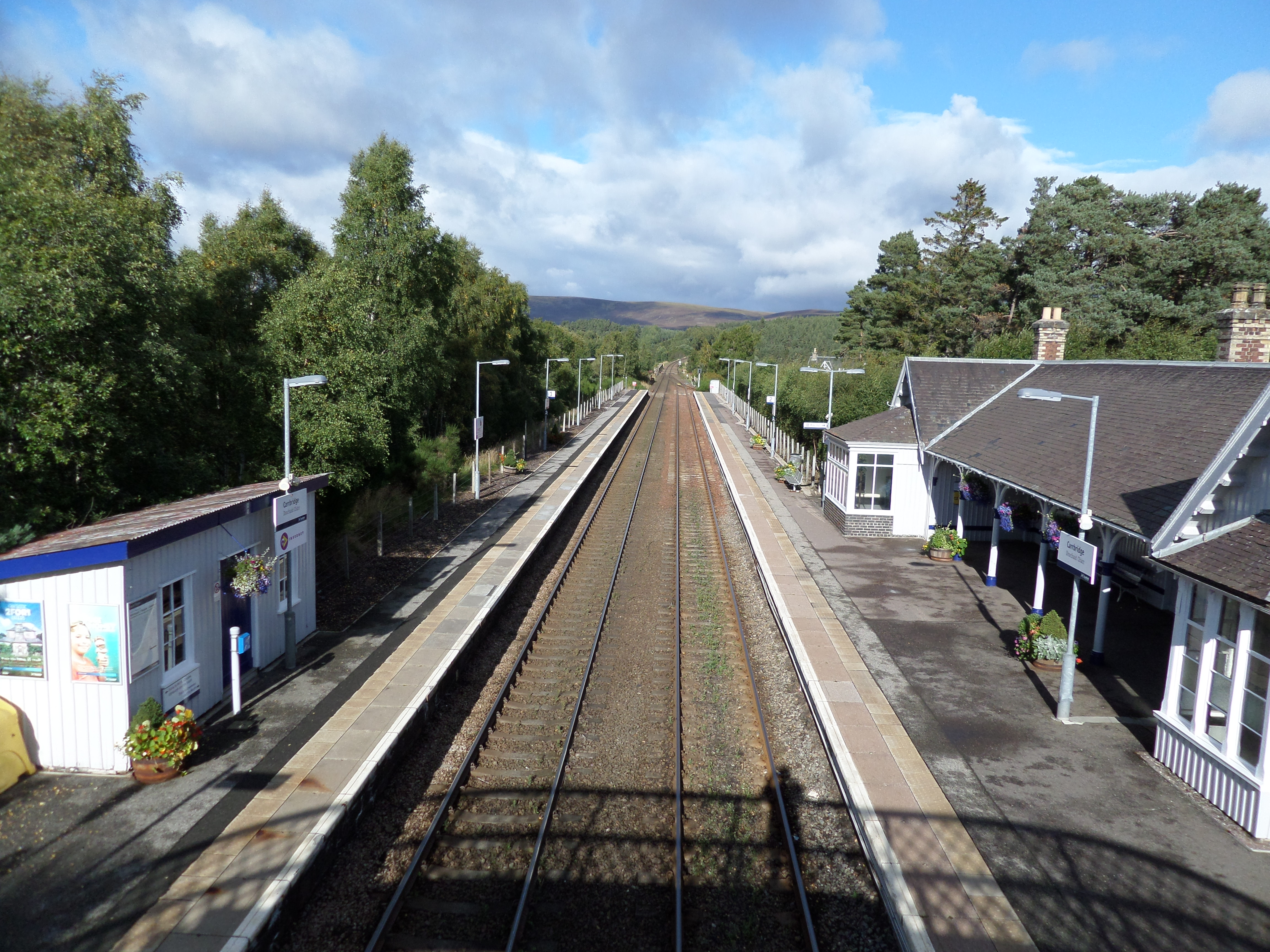 The railway station at Carrbridge, looking north towards Inverness. Highland Region, Scotland.